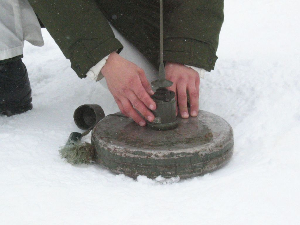 The swedish anti-tank mine Stridsvagnsmina 5 (dummy) primed with a mine fuze 15. The live mine is made from glass fiber reinforced TNT whereas the dummy is made from steel to withstand repeated use.